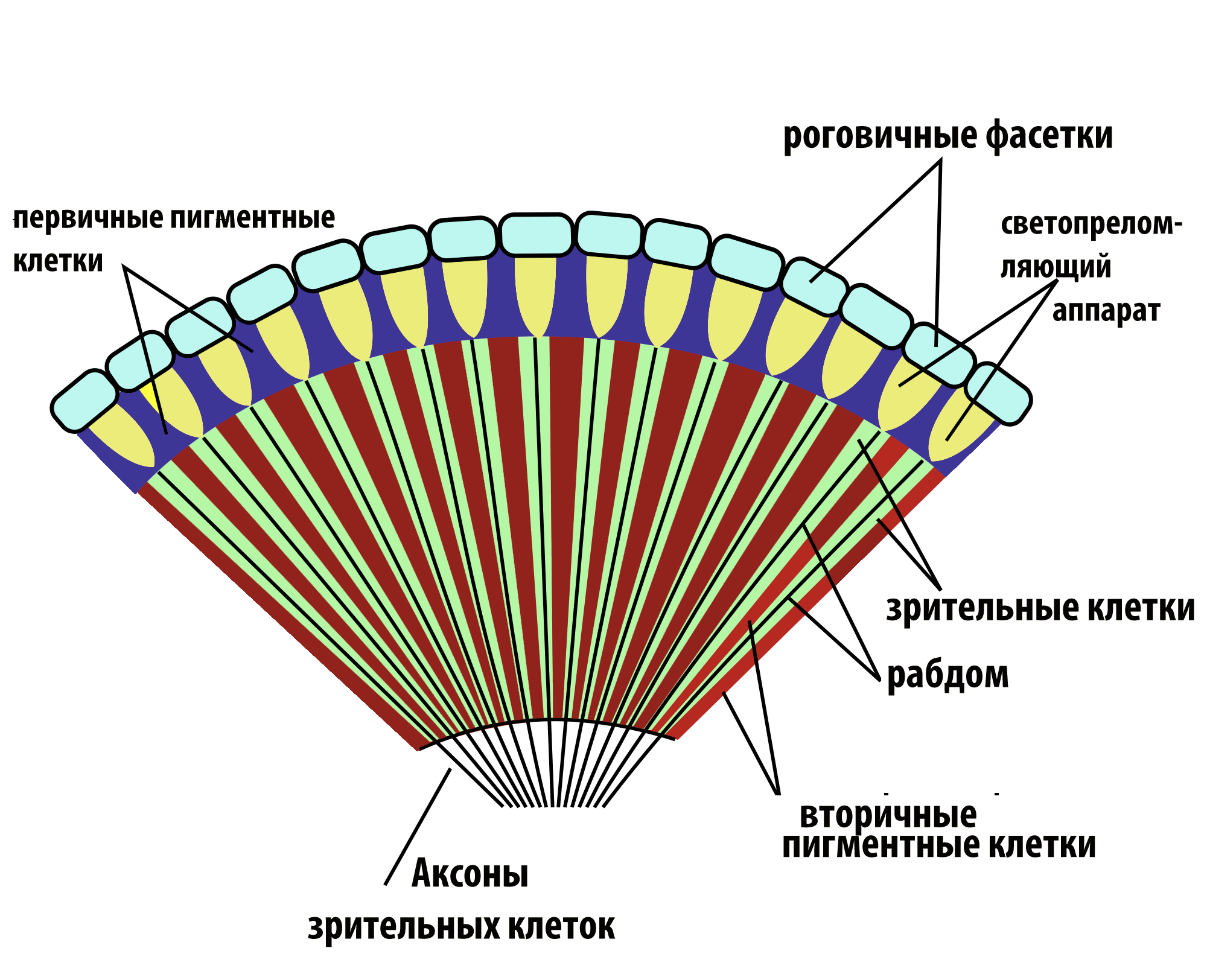 A diagram of a cross-sectioned insect's compound eye